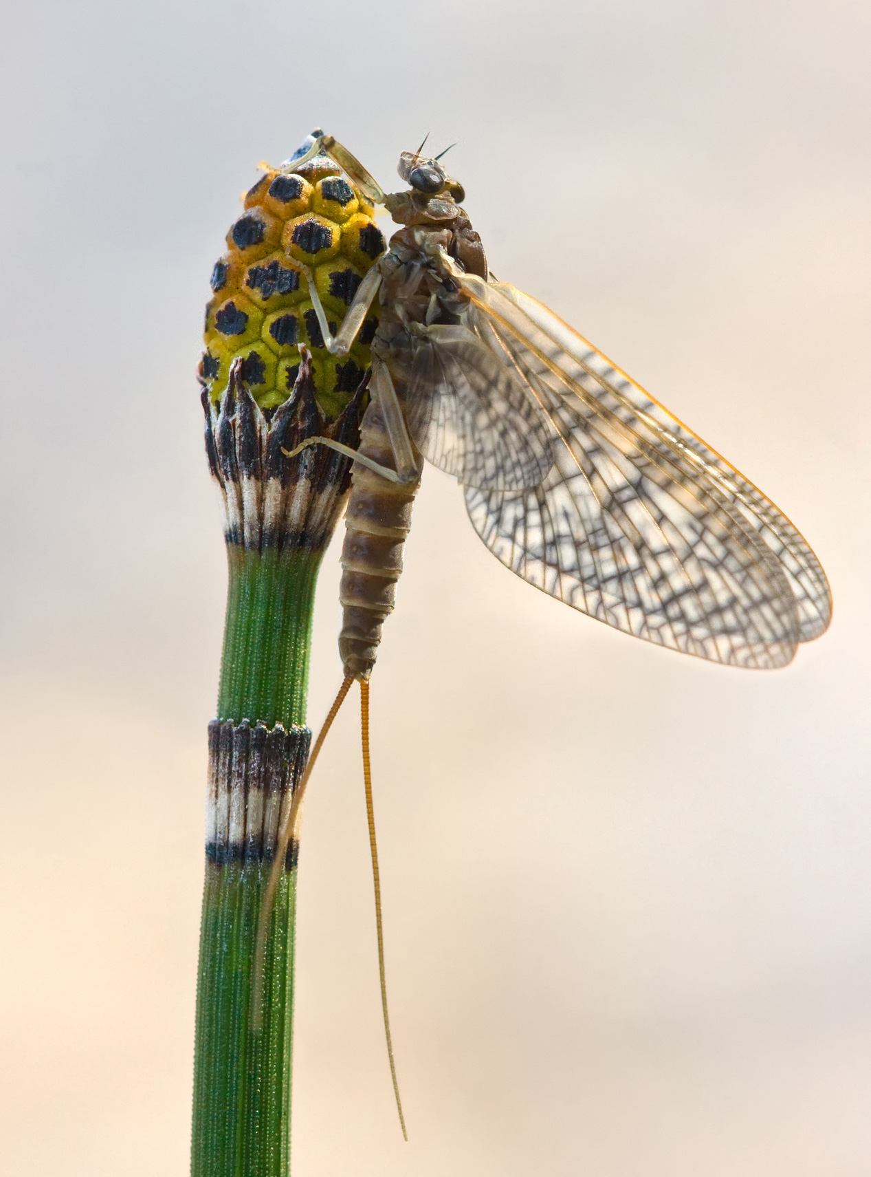 A female subimago of March Brown (Rhithrogena germanica) of family Heptageniidae. Mayflies are insects which belong to the Order Ephemeroptera (from the Greek ephemeros = "short-lived", pteron = "wing", referring to the short life span of adults). They have been placed into an ancient group of insects termed the Paleoptera, which also contains the dragonflies and damselflies. They are aquatic insects whose immature stage (called naiad or, colloquially, nymph) usually lasts one year in fresh water. As shown a Mayfly on a Rough Horsetail (Equisetum hyemale) which is a perennial with a rhizomatous stem formation native to the northern hemisphere. Identification: Dr. Arne Haybach at (thanks!)